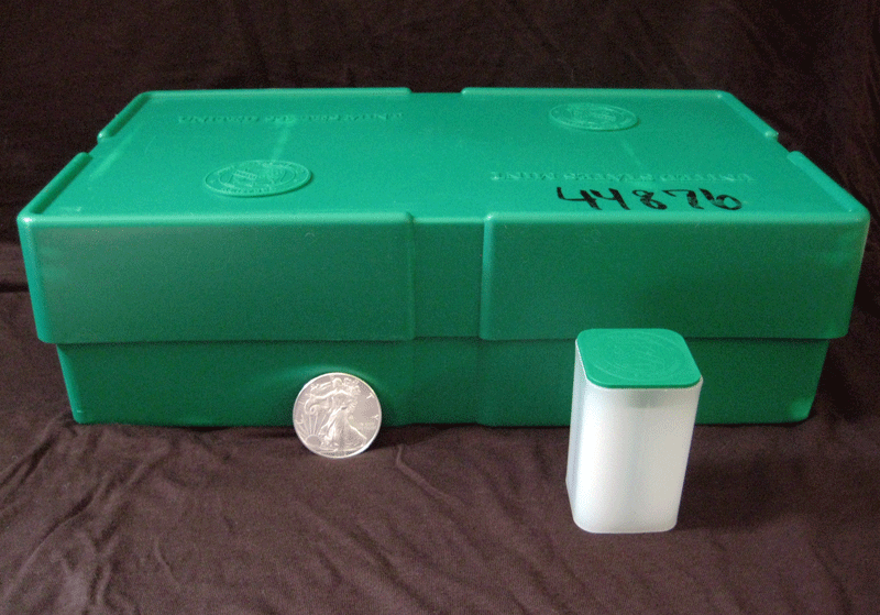 Plastic container known as a "monster box" used for shipping American Silver Eagle coins from the United States Mint. Plastic tube and coin are shown for comparison.